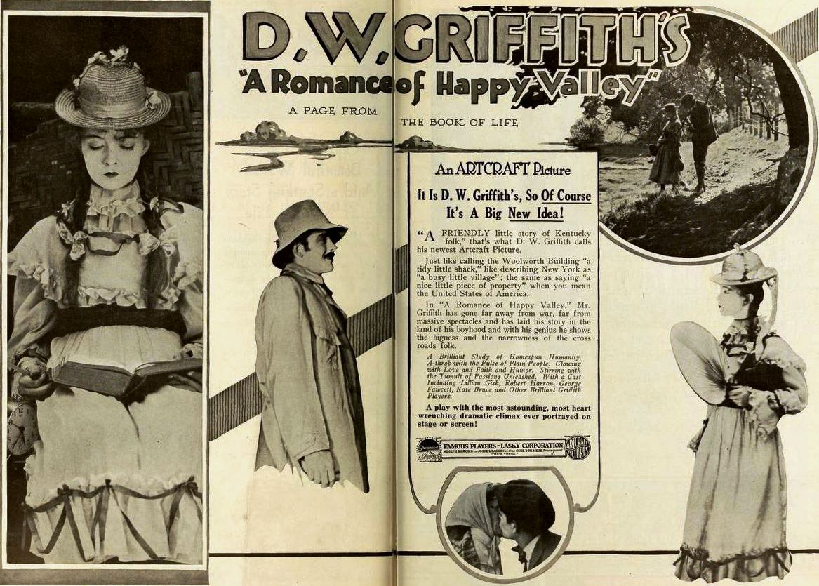 Ad for the American film A Romance of Happy Valley (1919) with Lillian Gish and Robert Harron, on pages 700 and 701 of the February 8, 1919 Moving Picture World.